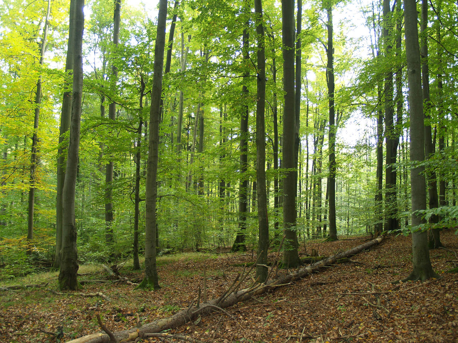 Nature reserve Psí kuchyně near Janov village in Svitavy District, Czech Republic